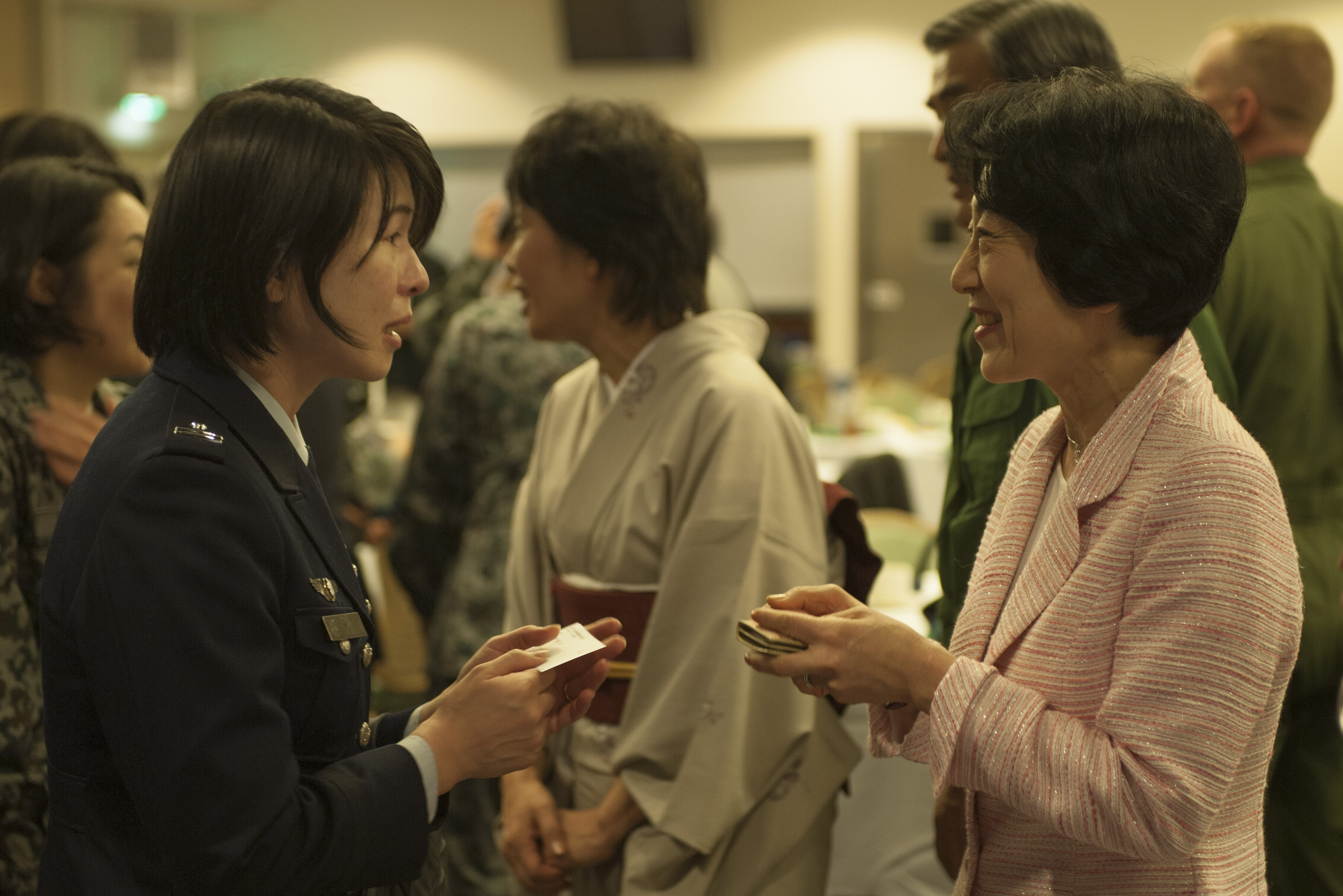 A Japan Air Self-Defense Force member talks with retired Maj. Gen. Keiko Kashihara, the first female active duty JASDF general officer, following the Women's History Month luncheon April 4, 2014, at Yokota Air Base, Japan. During her speech, Kashihara talked about her experience as a femal JASDF member and the changes she hopes to see in the future.